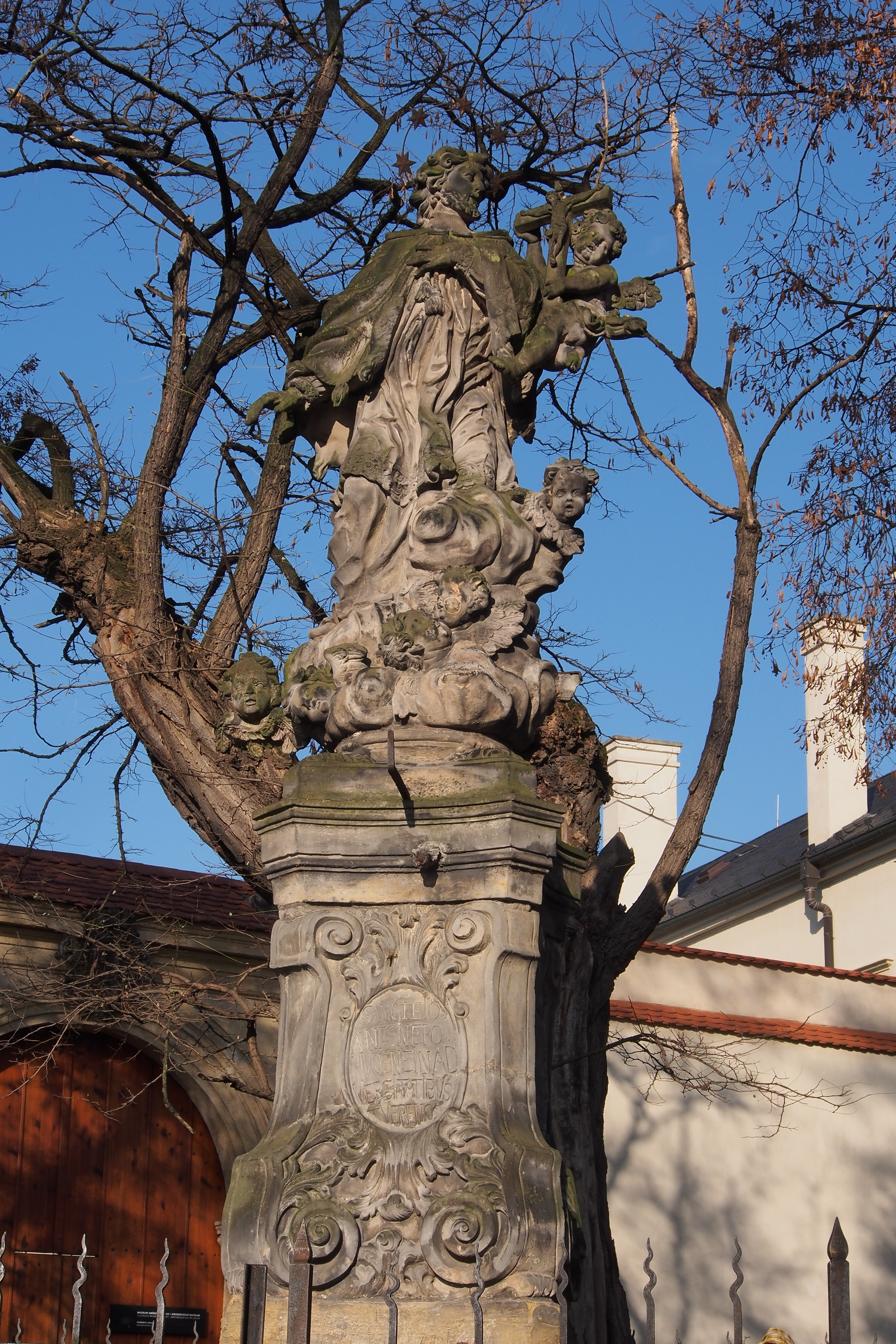 Statue of John of Nepomuk at Wenceslaus square in Olomouc (Czech Republic) was built in 1724. Author is sculptor Jiří Antonín Heinz from Olomouc.